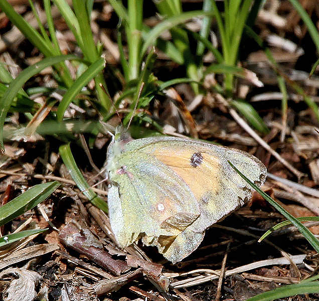 Dark Clouded Yellow Colias croceus taken at Kullu Distt., Himachal, India during Sar Pass Trek (around 10500 ft.)on way to Zirmi Thaatch(11000 ft.).